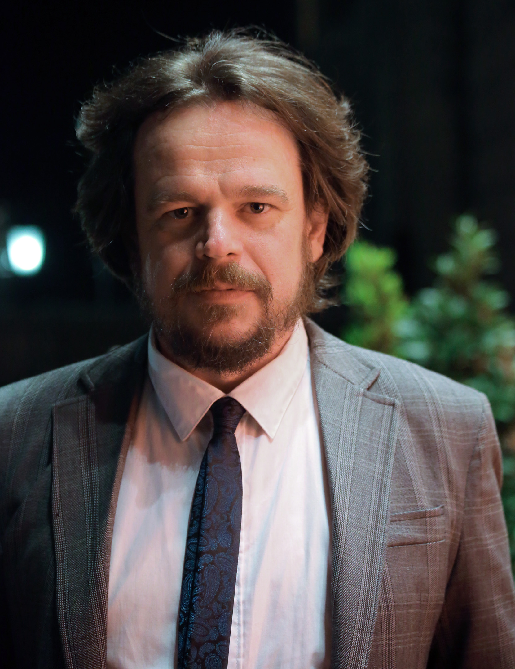 Raimund Wallisch at the Romy film awards (Hofburg Imperial Palace in Vienna)